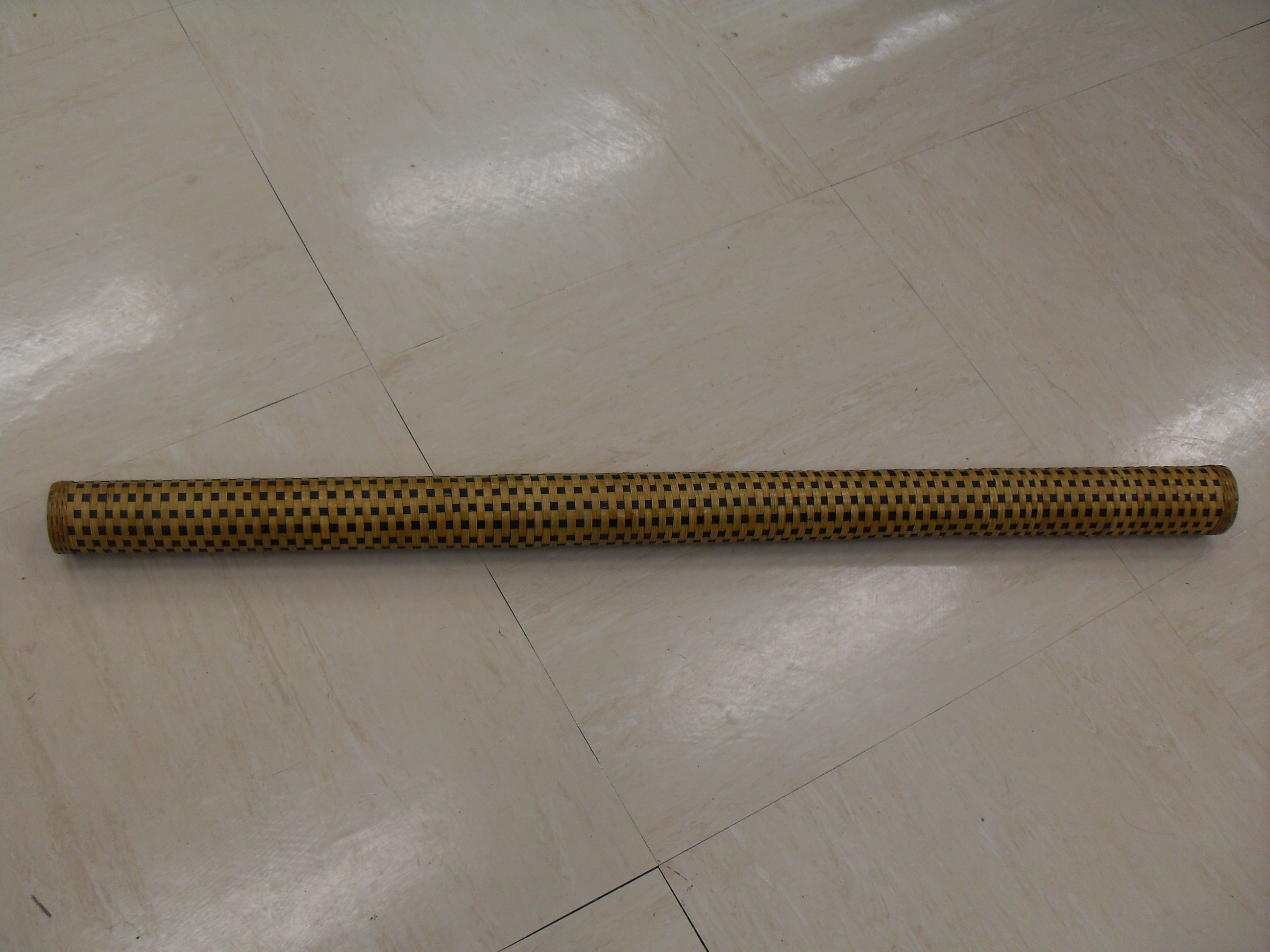 Modern rainstick